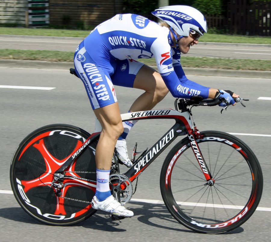 Wouter Weylandt at the 2009 Eneco Tour prologue